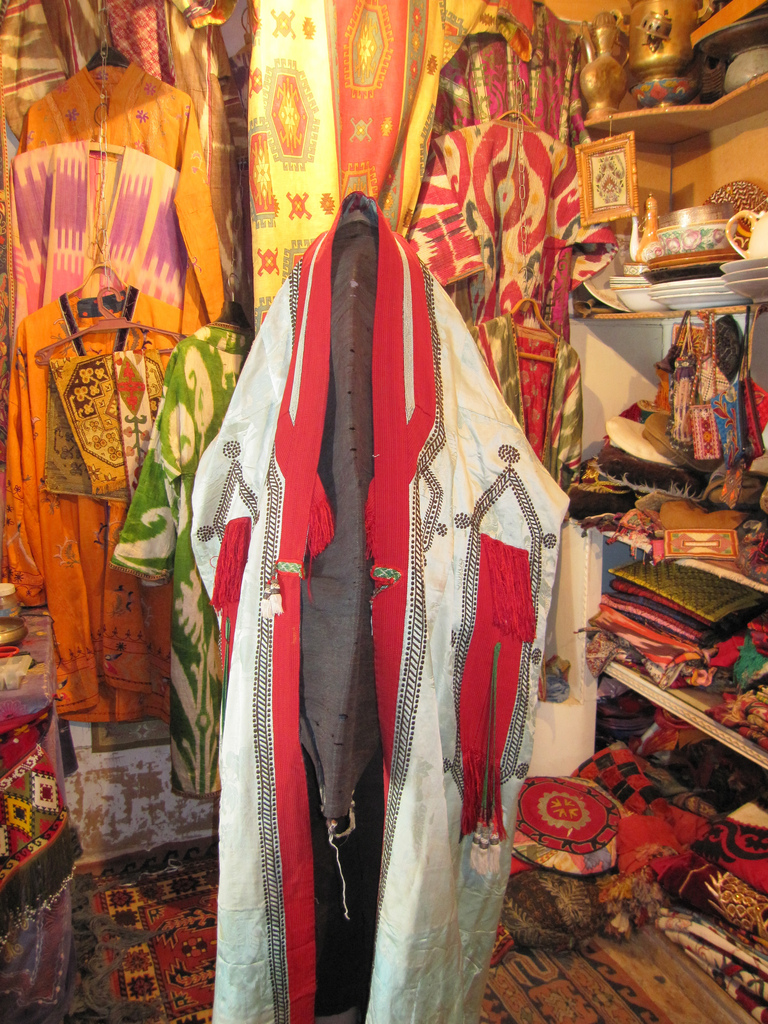 example of an Uzbek paranja